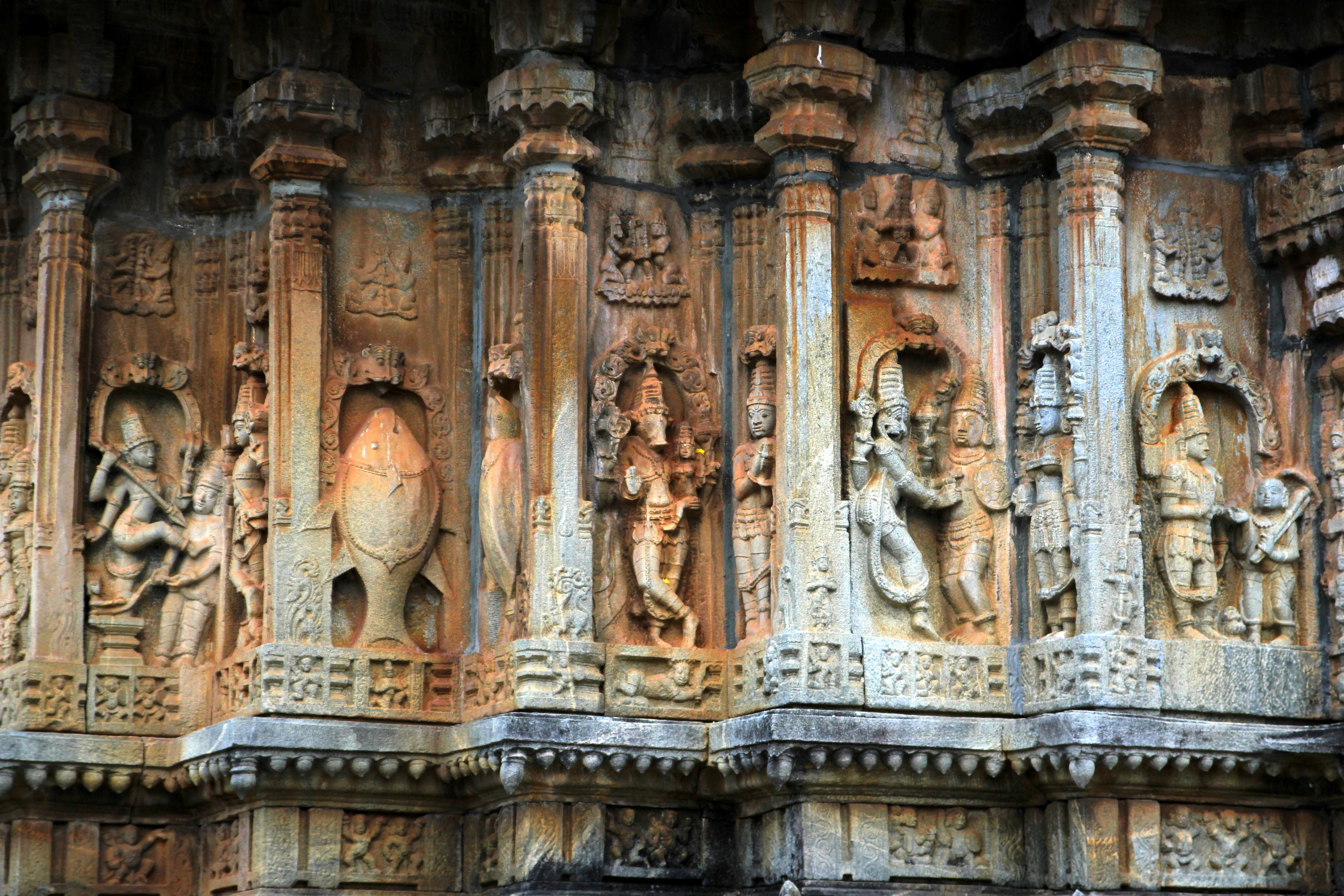 From the walls of the Shri Vidyashankara Temple, Shringeri